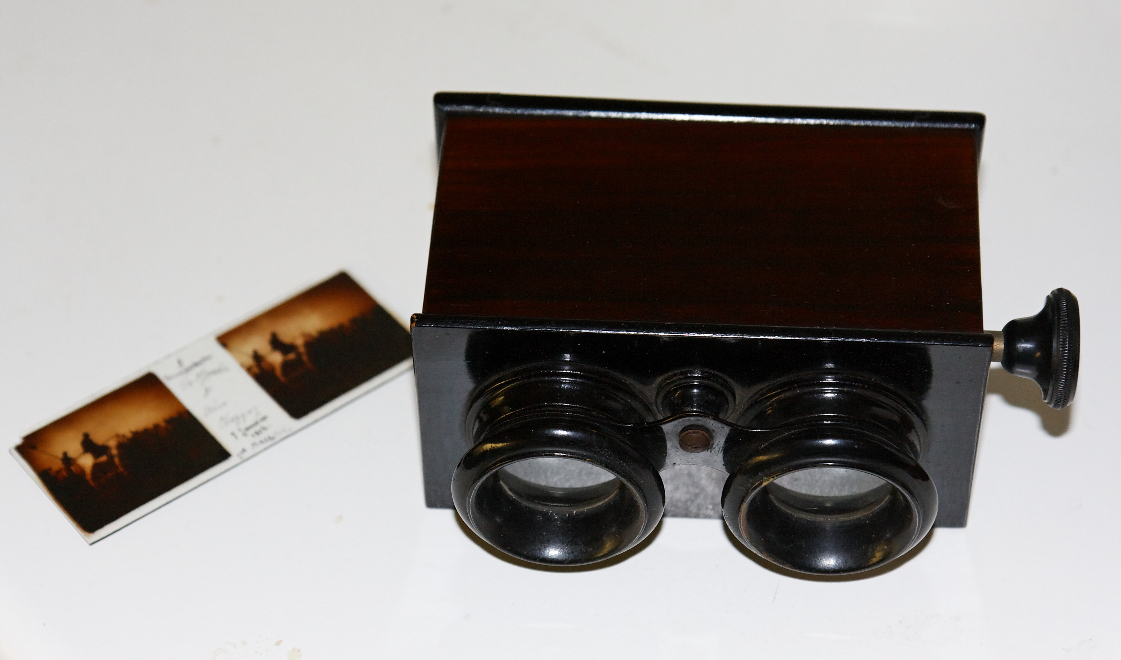 Stereoscope, "Verascope Richard"